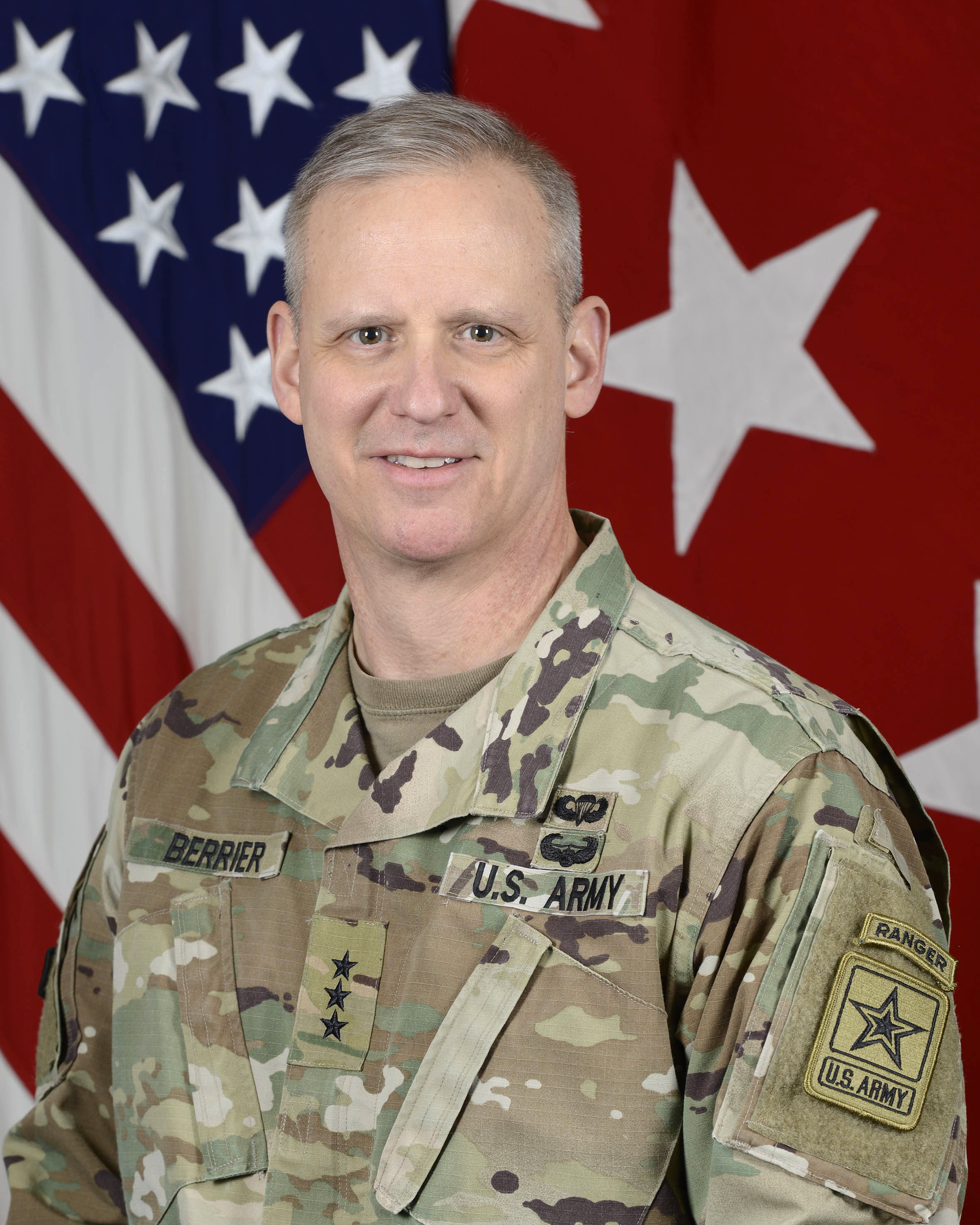 U.S. Army Lt. Gen. Scott D. Berrier, Assistant Chief of Staff, G2 (Army Intelligence), poses for a command portrait in the Army portrait studio at the Pentagon in Arlington, Va., Mar. 7, 2018. (U.S. Army photo by Monica King)